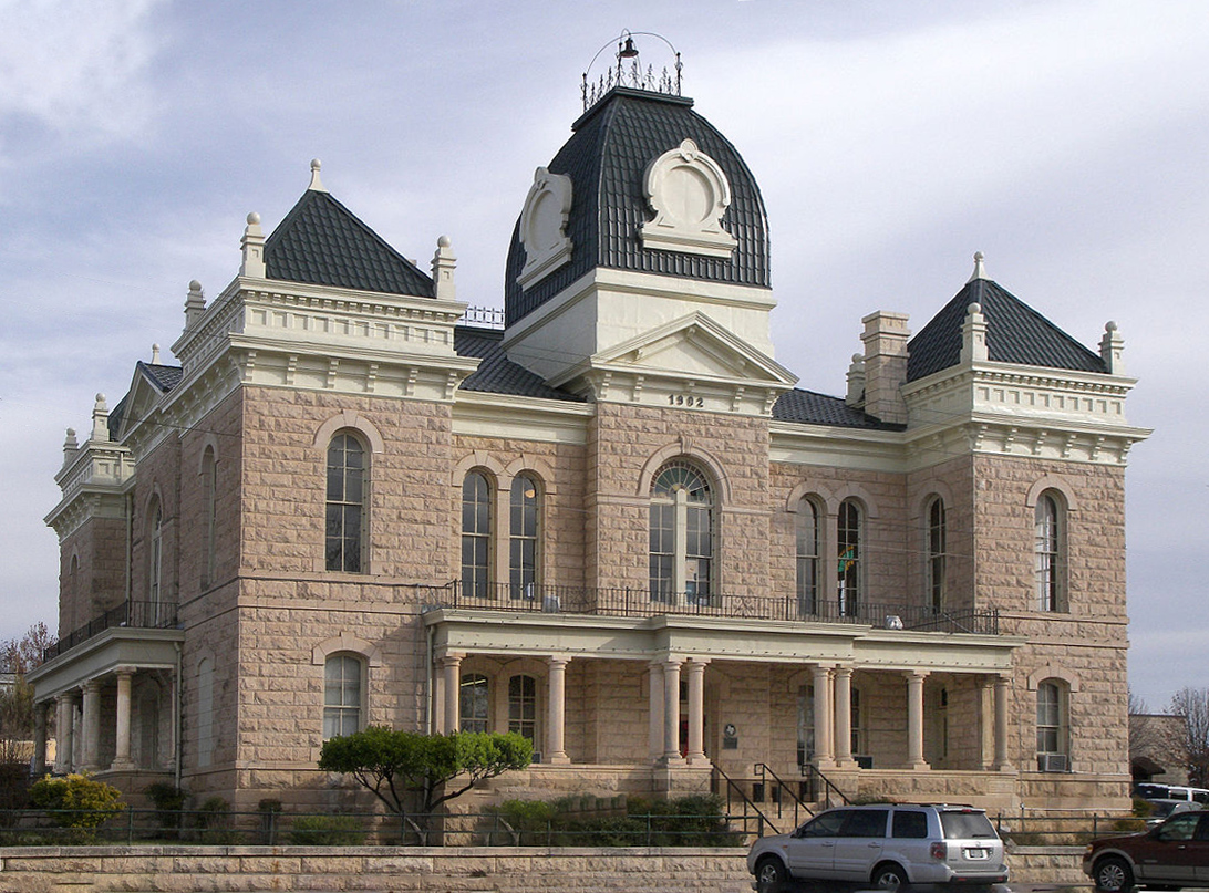 The Crockett County, Texas courthouse located at 907 Ave D, Ozona, Texas, United States. The limestone courthouse was built in 1902 in the Second Empire style. It was designated a Recorded Texas Historic Landmark in 1966 and was listed on the National Register of Historic Places on December 27, 1974.